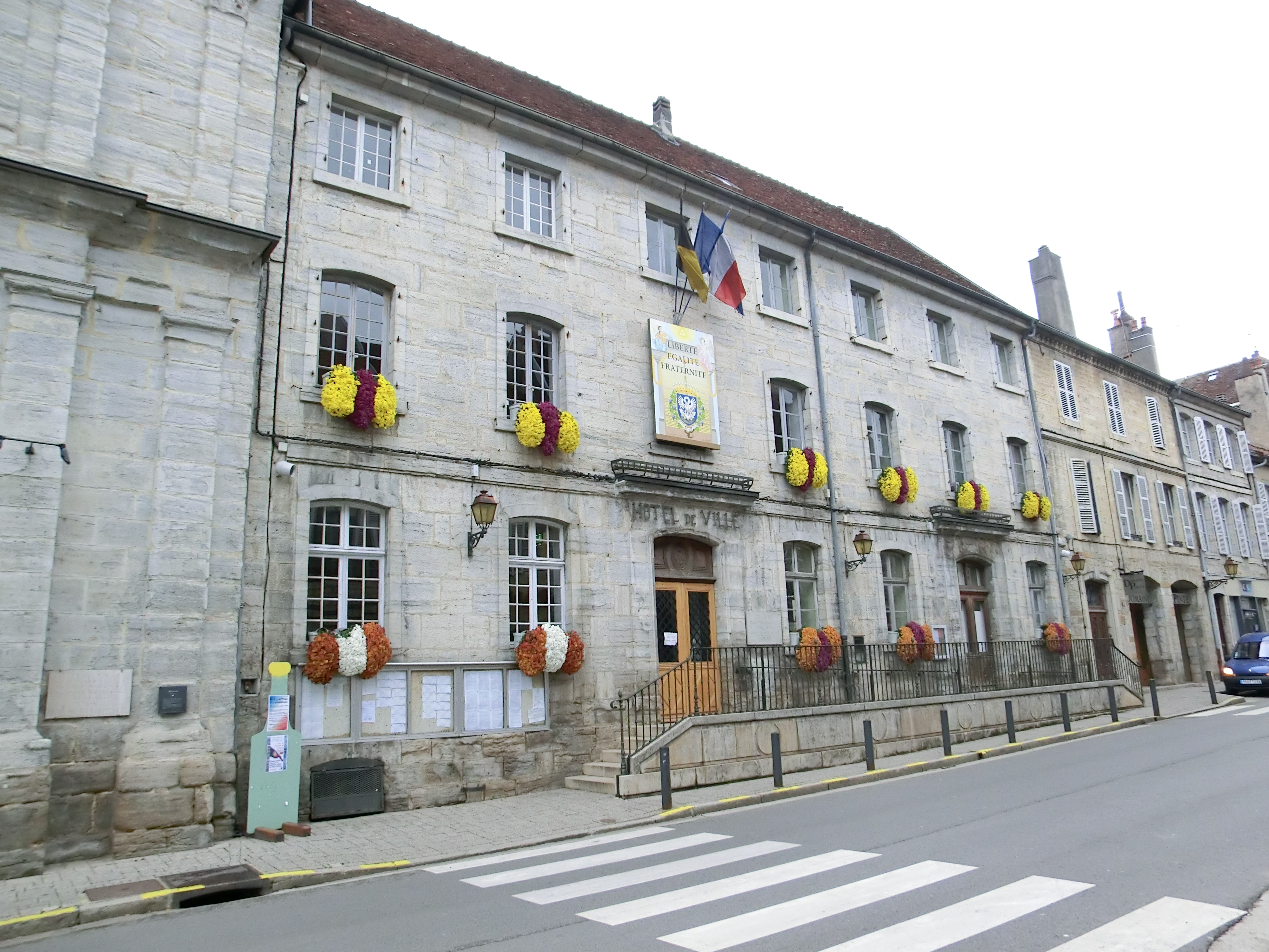 Arbois, Hôtel de ville